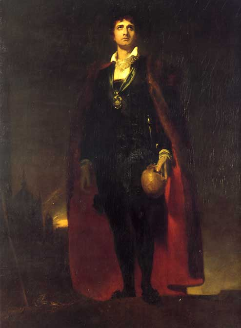 English actor John Philip Kemble as Hamlet in 1802